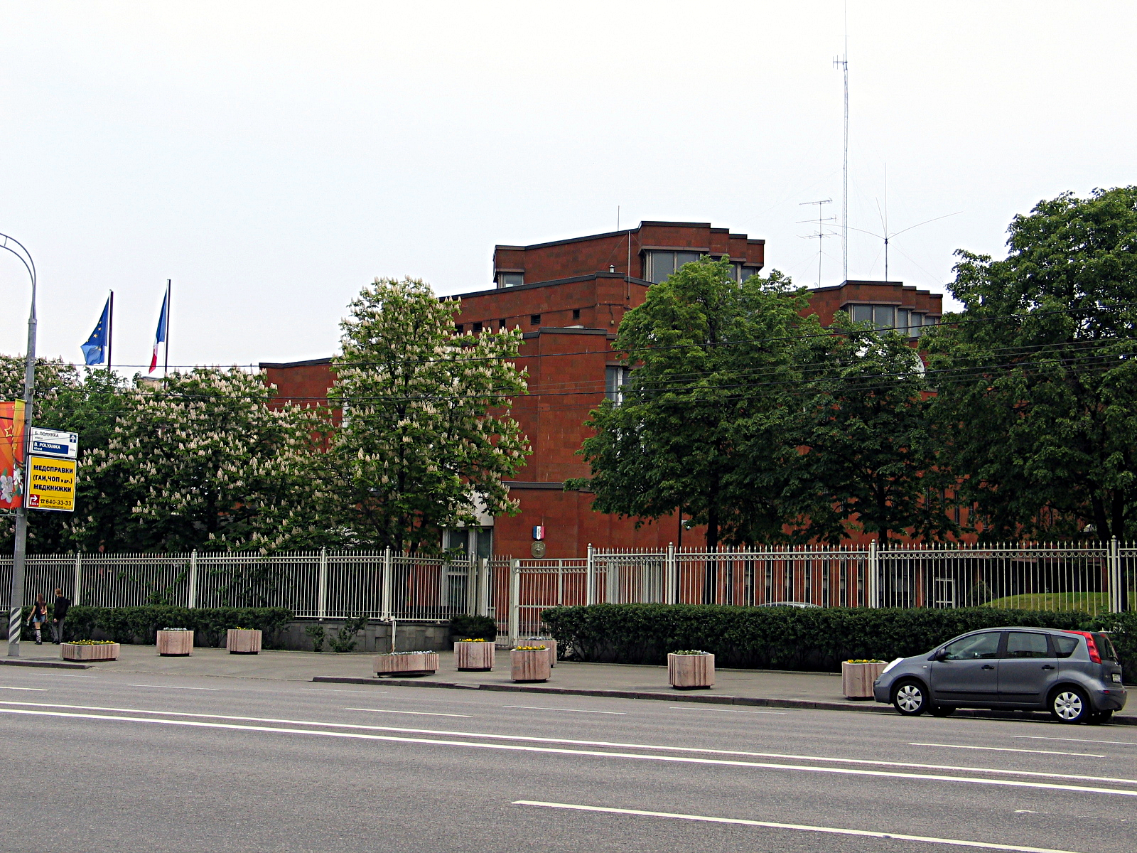 Embassy of France in Moscow (Bolshaya Yakimanka Street, 45)